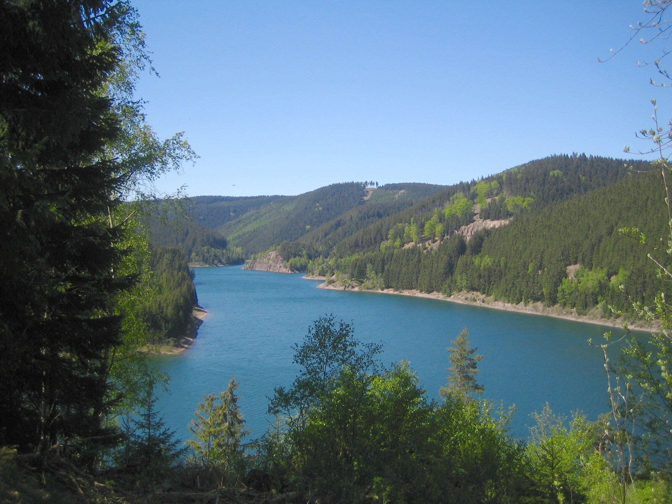 Dam Ohratalsperre in Thuringia, Germany